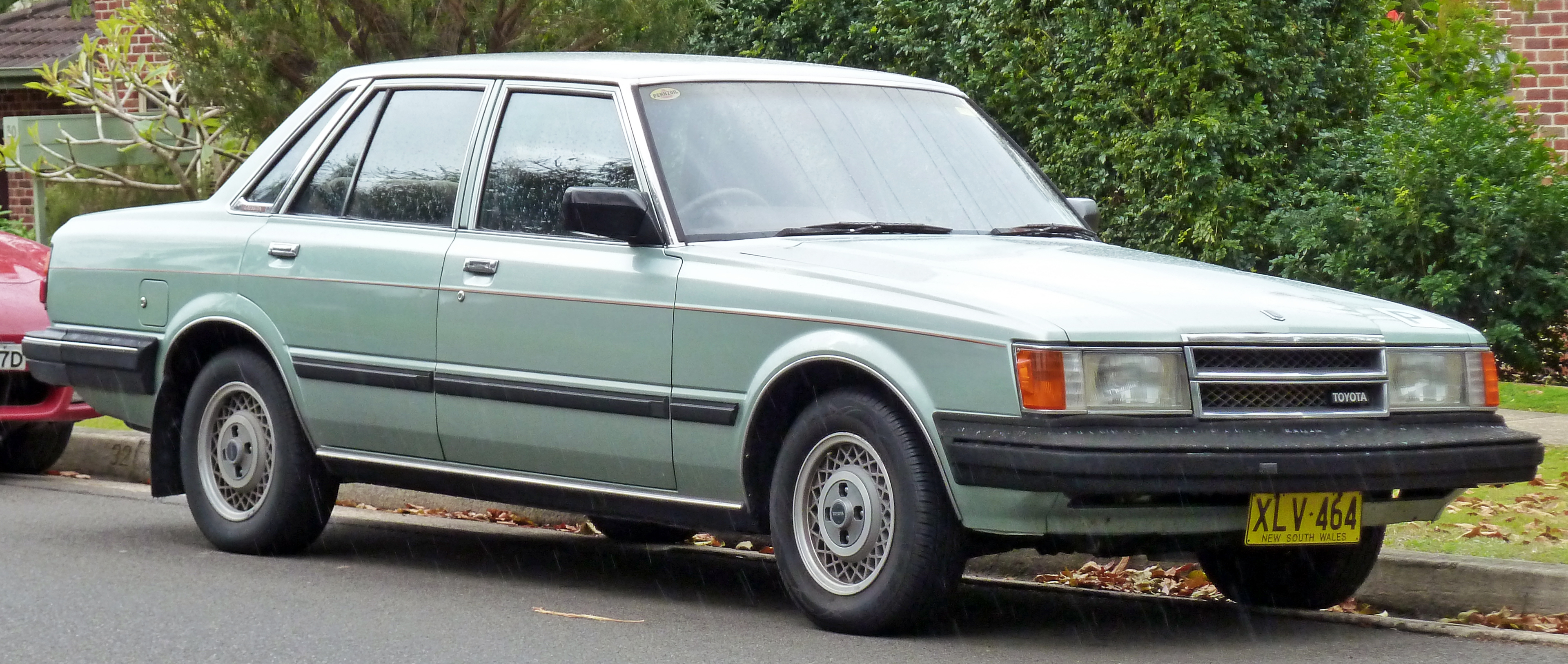 1983 Toyota Cressida (MX62) GL sedan. Photographed in Gymea, New South Wales, Australia.